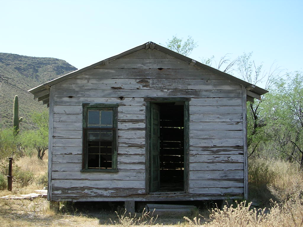 Bunkhouse at the Bates Well Ranch — in Organ Pipe Cactus National Monument, southern Arizona, USA.